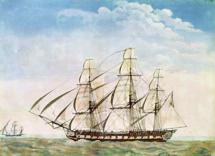 Sailing frigate USS Essex (1799), from port side view, as a stylized illustration of the ship, with cannon ports visible, in configuration at the Galapagos Islands.